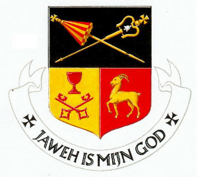 Coat of arms of Peter Basilica Boxmeer, province of North-Brabant, The Netherlands.